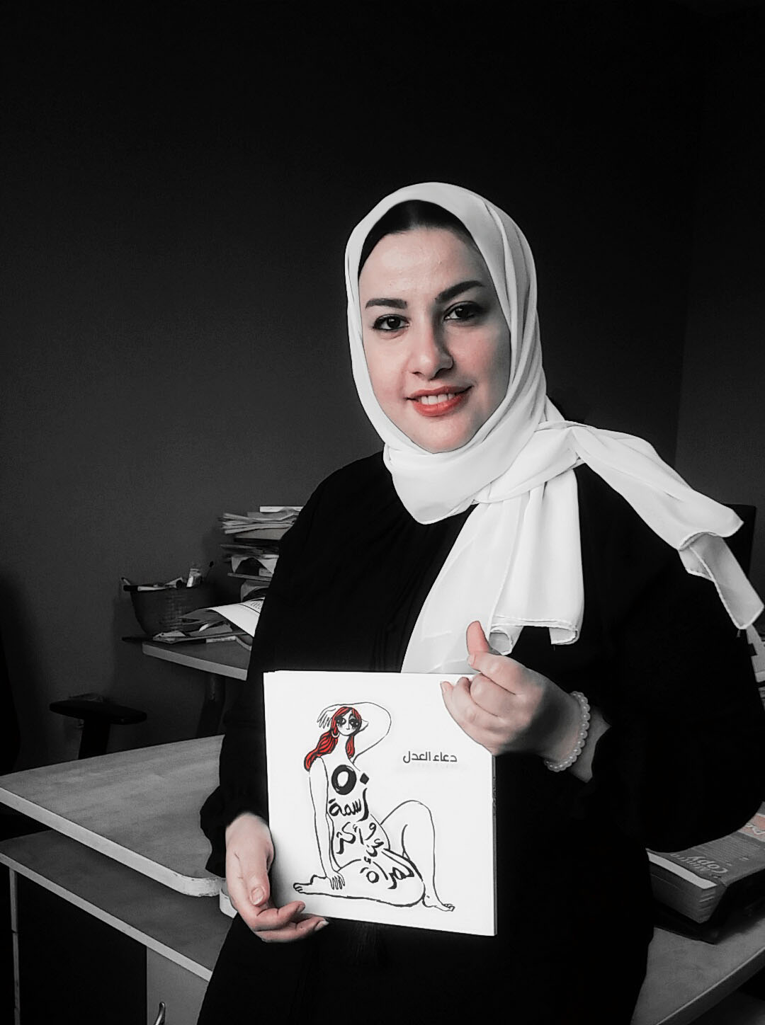 The Egyptian Caricaturist "Doaa ElAdl" with her new book" 50 Drawings and more about Women"